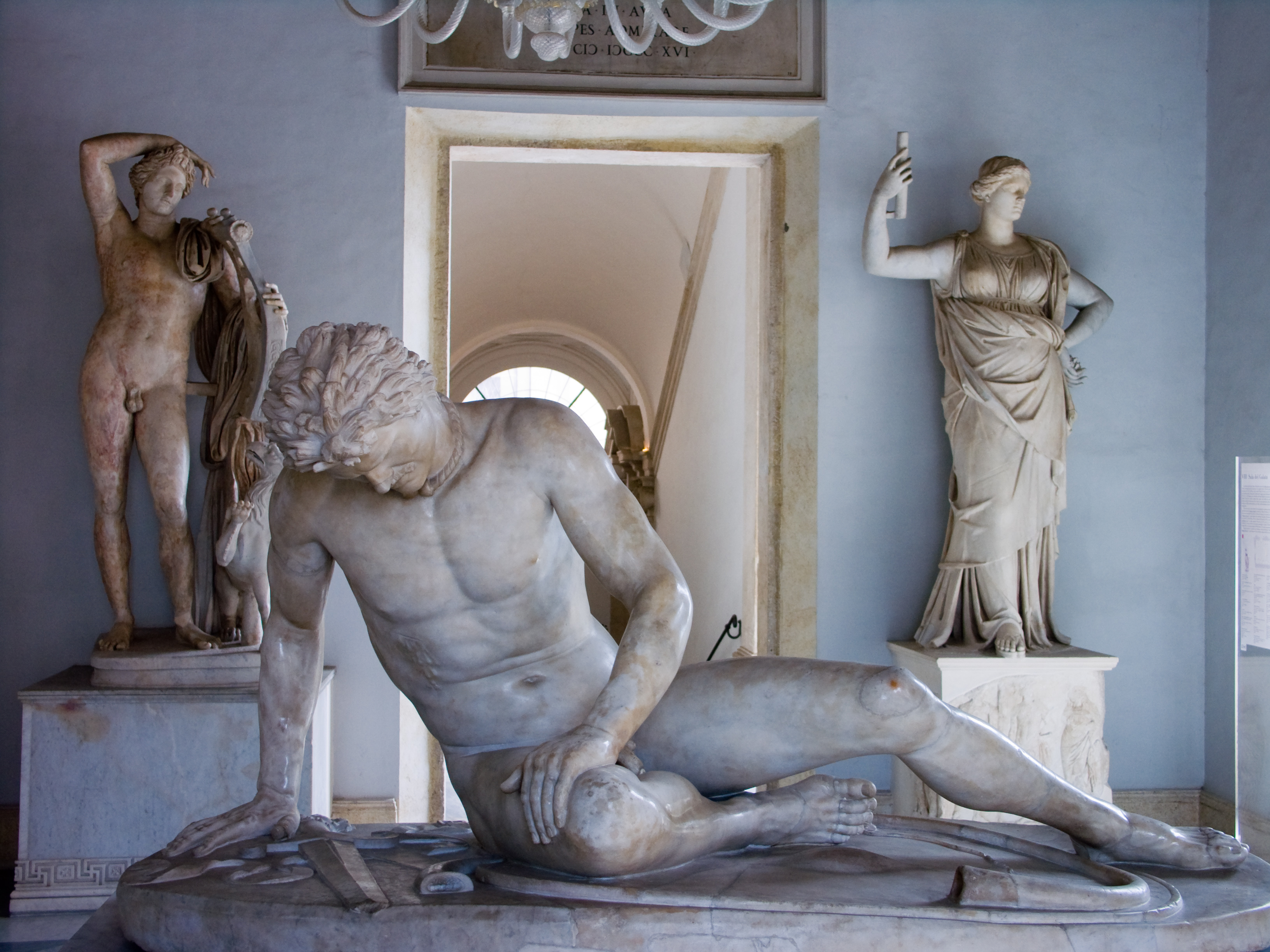 The Dying Gaul is one of the best-known and most important works in the Capitoline Museums. It is a replica of one of the sculptures in the ex-voto group dedicated to Pergamon by Attalus I to commemorate the victories over the Galatians in the 3rd and 2nd centuries BC. The identity of the author of the original is unknown, but it has been suggested that Epigonus, the court sculptor of the Attalid dynasty of Pergamon, may have been its creator.